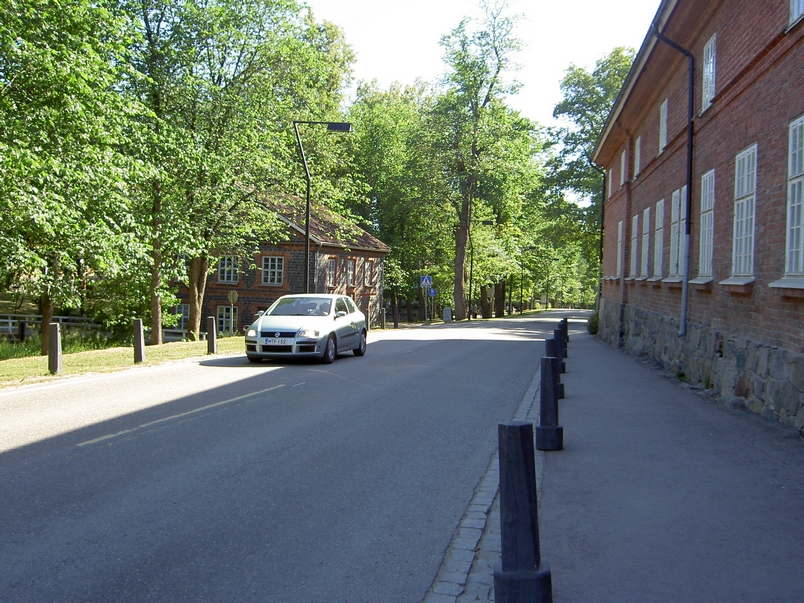 Antskogintie road (regional road 104) at Fiskars village in Pohja, Finland